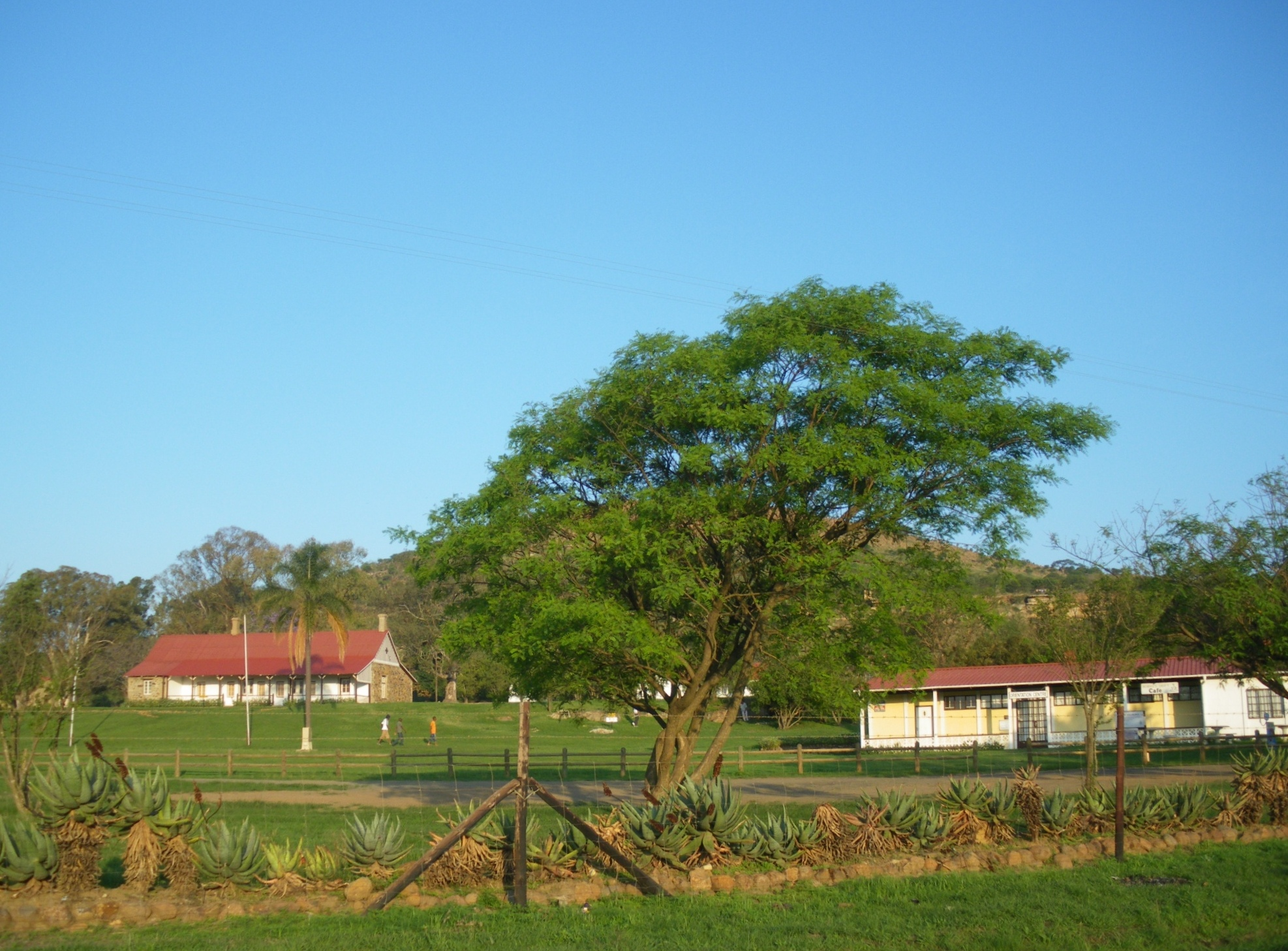 Rorke's Drift nowadays, Kwazulu-Natal, South Africa. The historical building is on the left, and on the right stands the Rorke's Drift Café (also the documentation center)